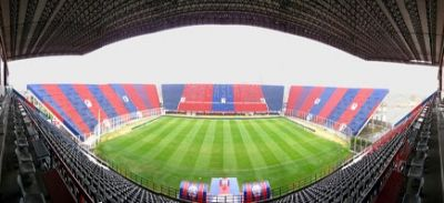 stadium on Bajo Flores